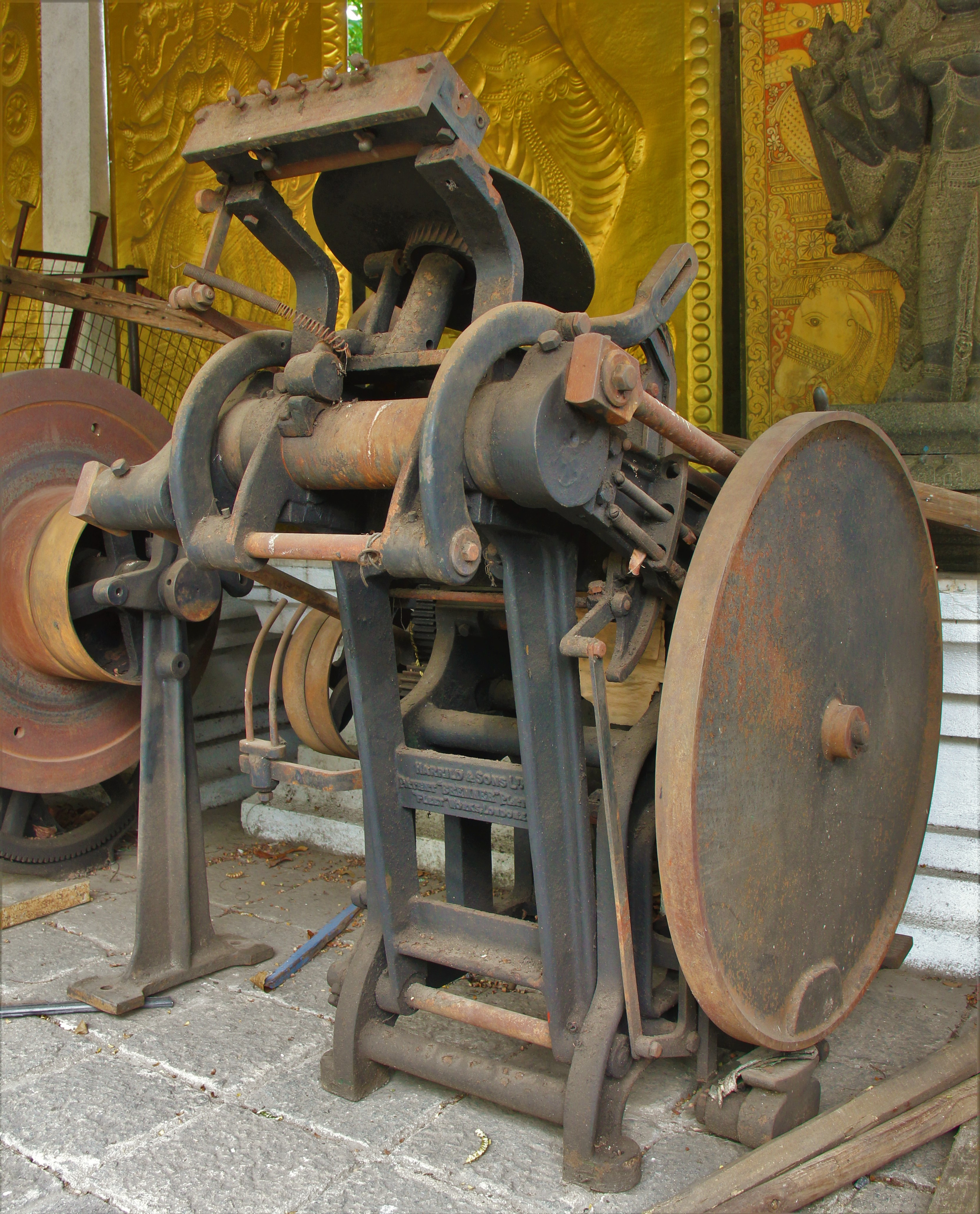 Jobbing press manufactured by Harrild & Sons Limited, London. Press found at (outside) Gangaramaya Temple in Colombo, Sri Lanka.